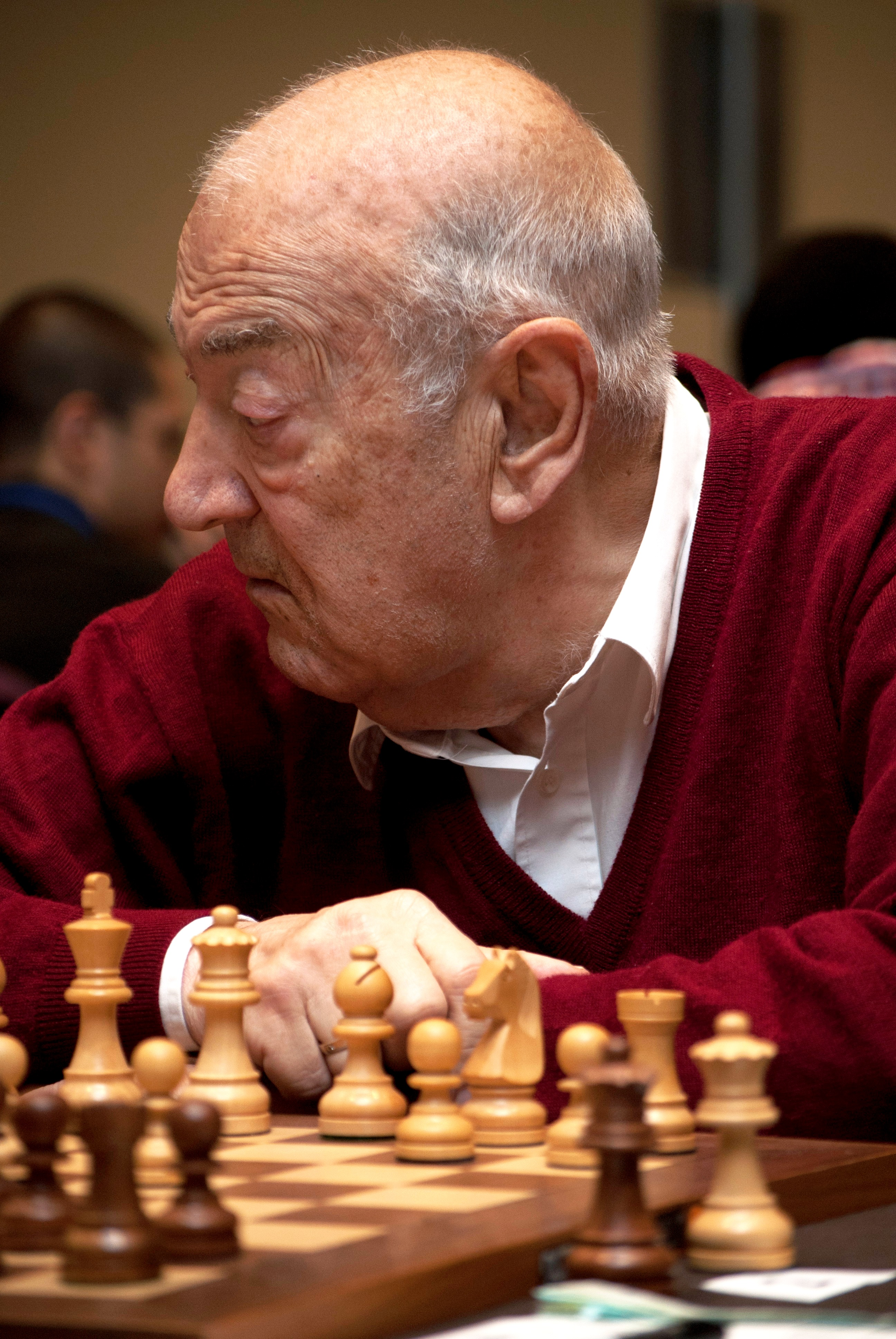 GM Viktor Korchnoi, Porto Carras EchT 2011.